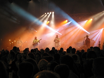 An original photograph taken by me at the Lorient Interceltic Festival in Brittany